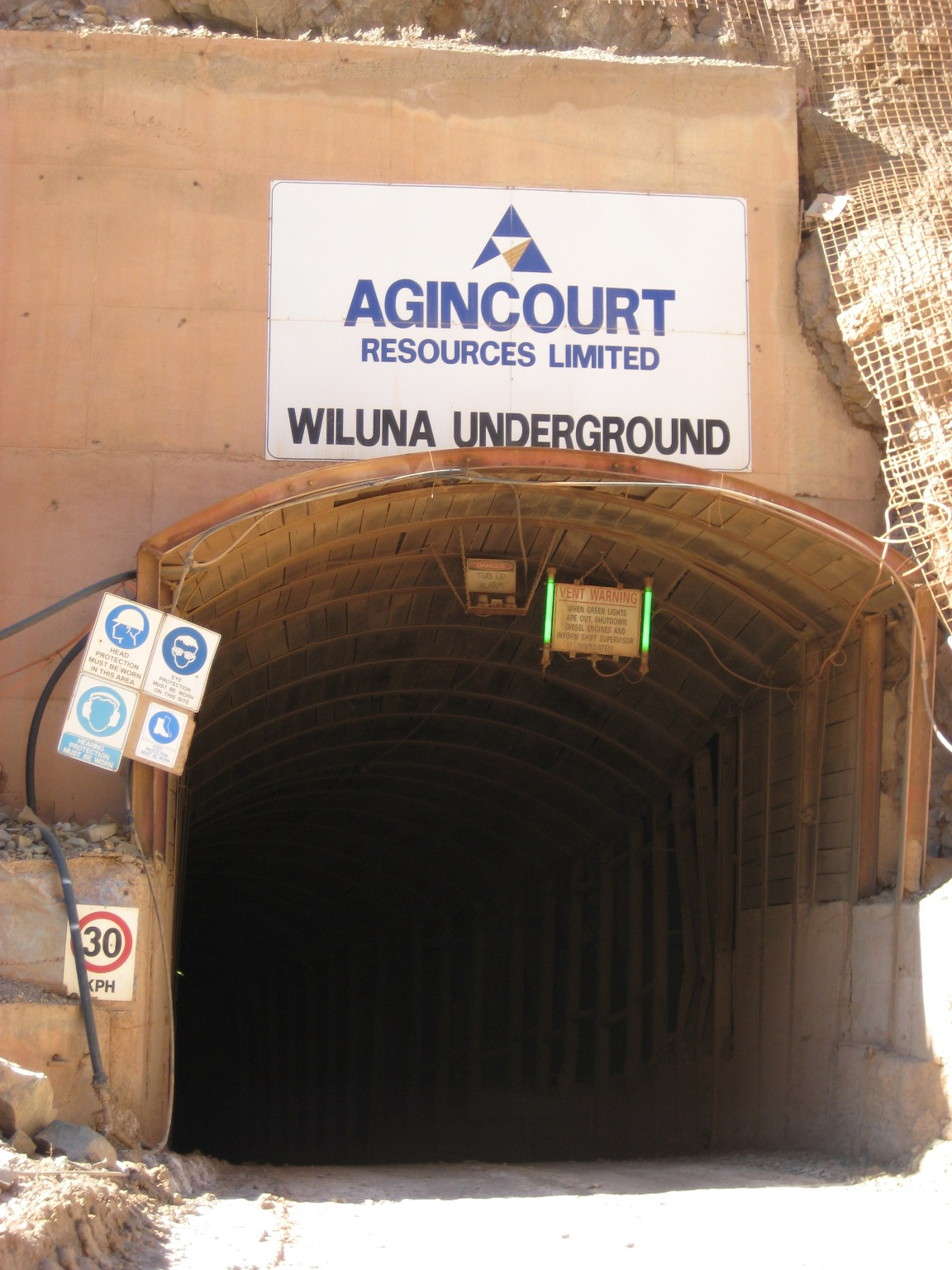 Wiluna Gold Mine underground portal, starting from the bottom of the Bulletin pit. Note the green lights, which indicate the proper operation of the ventilation system.